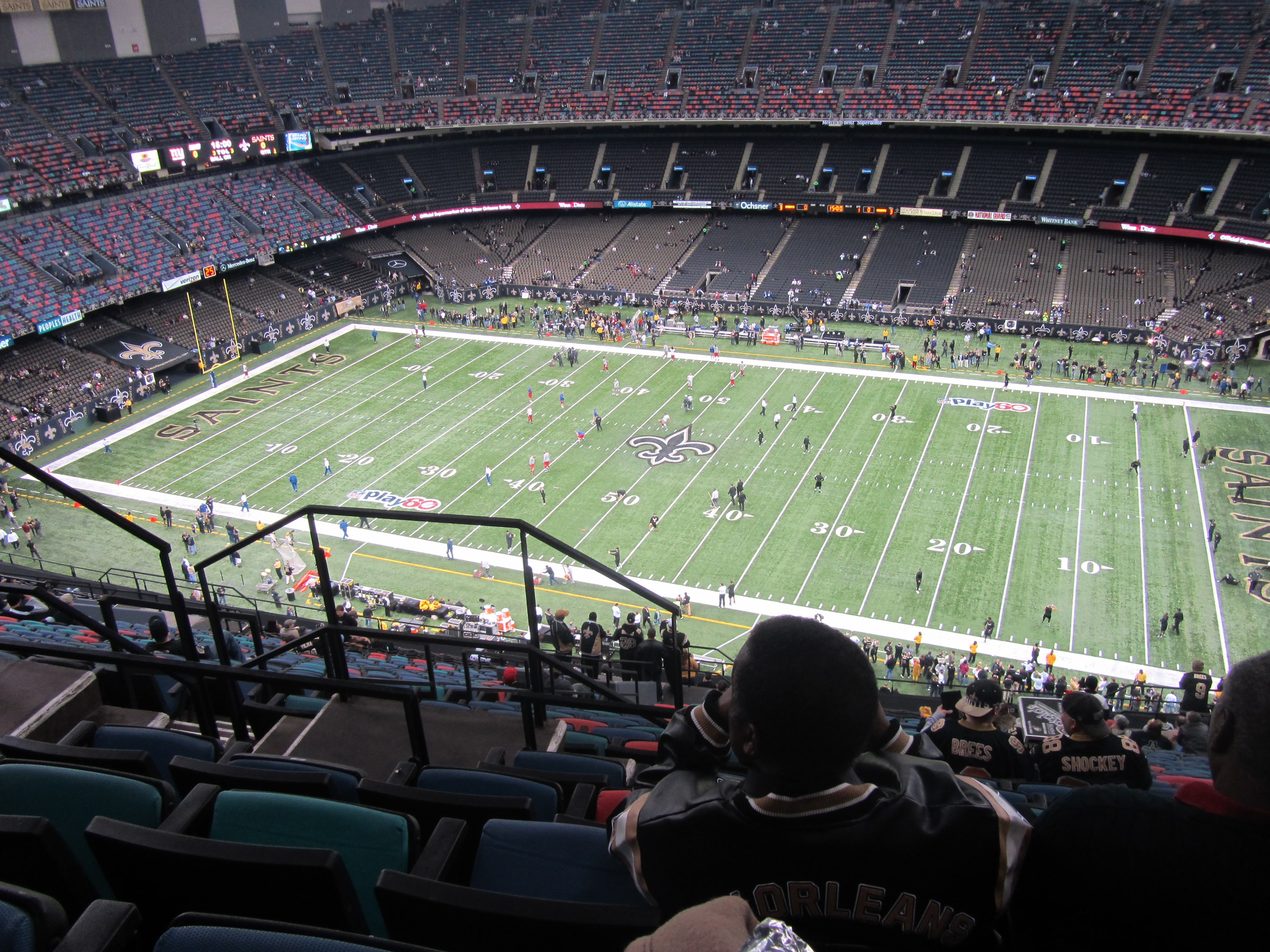 Inside the Superdome, New Orleans